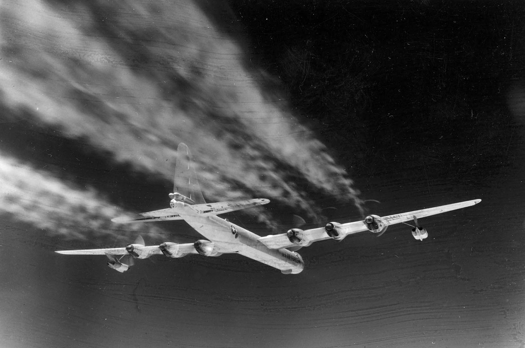 A RB-36H leaving six contrails from the propeller engines in flight.